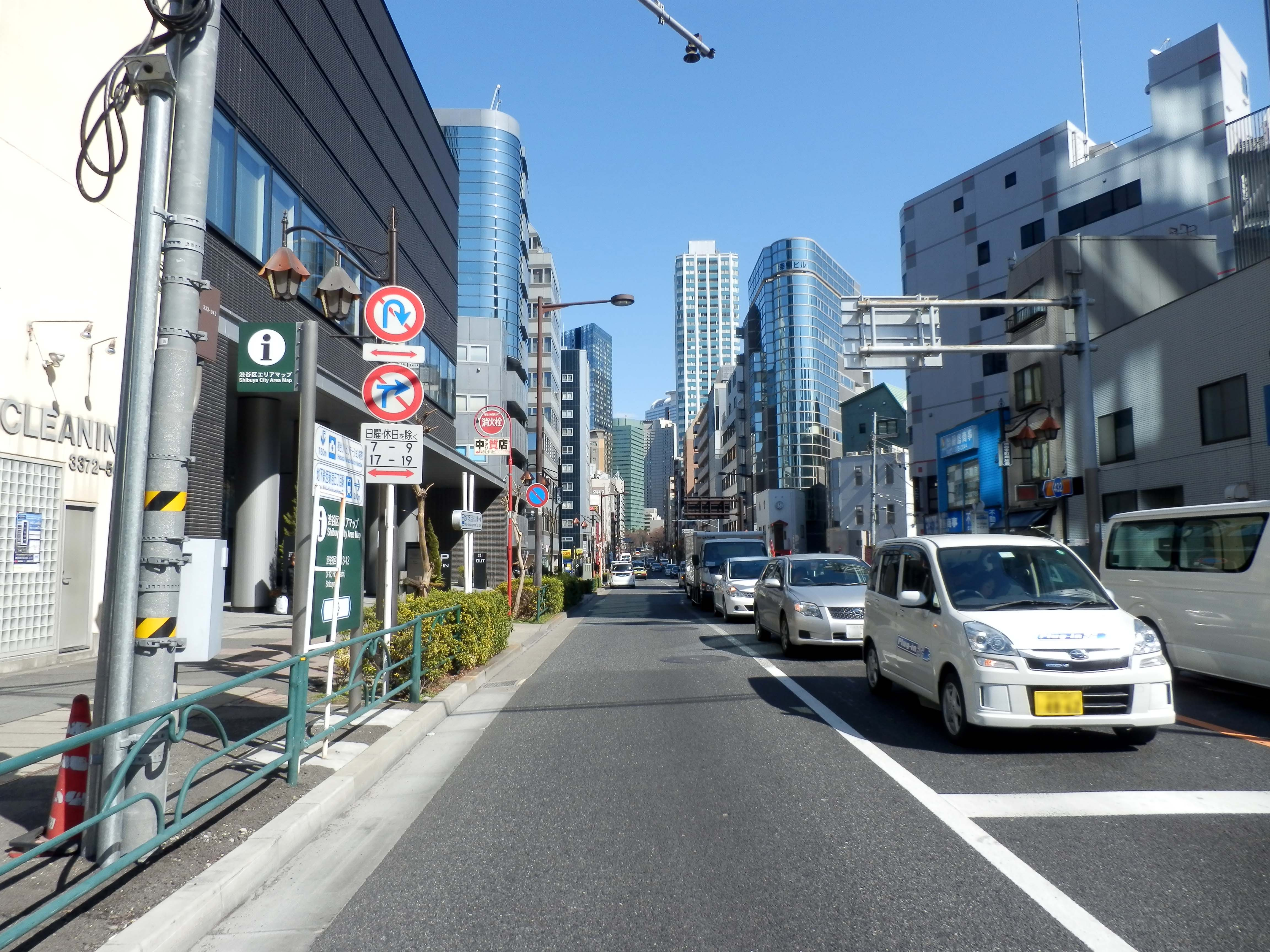 Tokyo prefectural road route 432 (Looking eastward from Shimizubashi intersection)